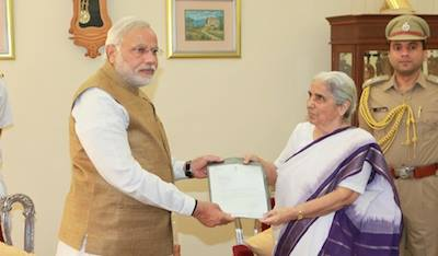 Shri Natrendra Modi submits his resignation as Gujarat Chief Minister to the Honourable Governor